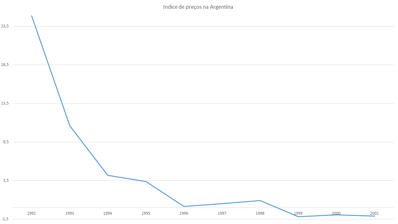 Inflation, consumer prices for Argentina